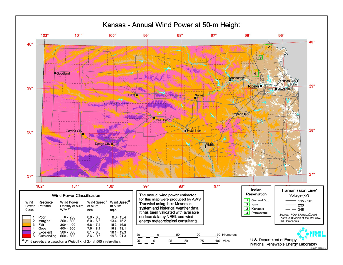 Average annual wind power distribution for Kansas, 50m height above ground, also showing location of existing electrical transmission lines